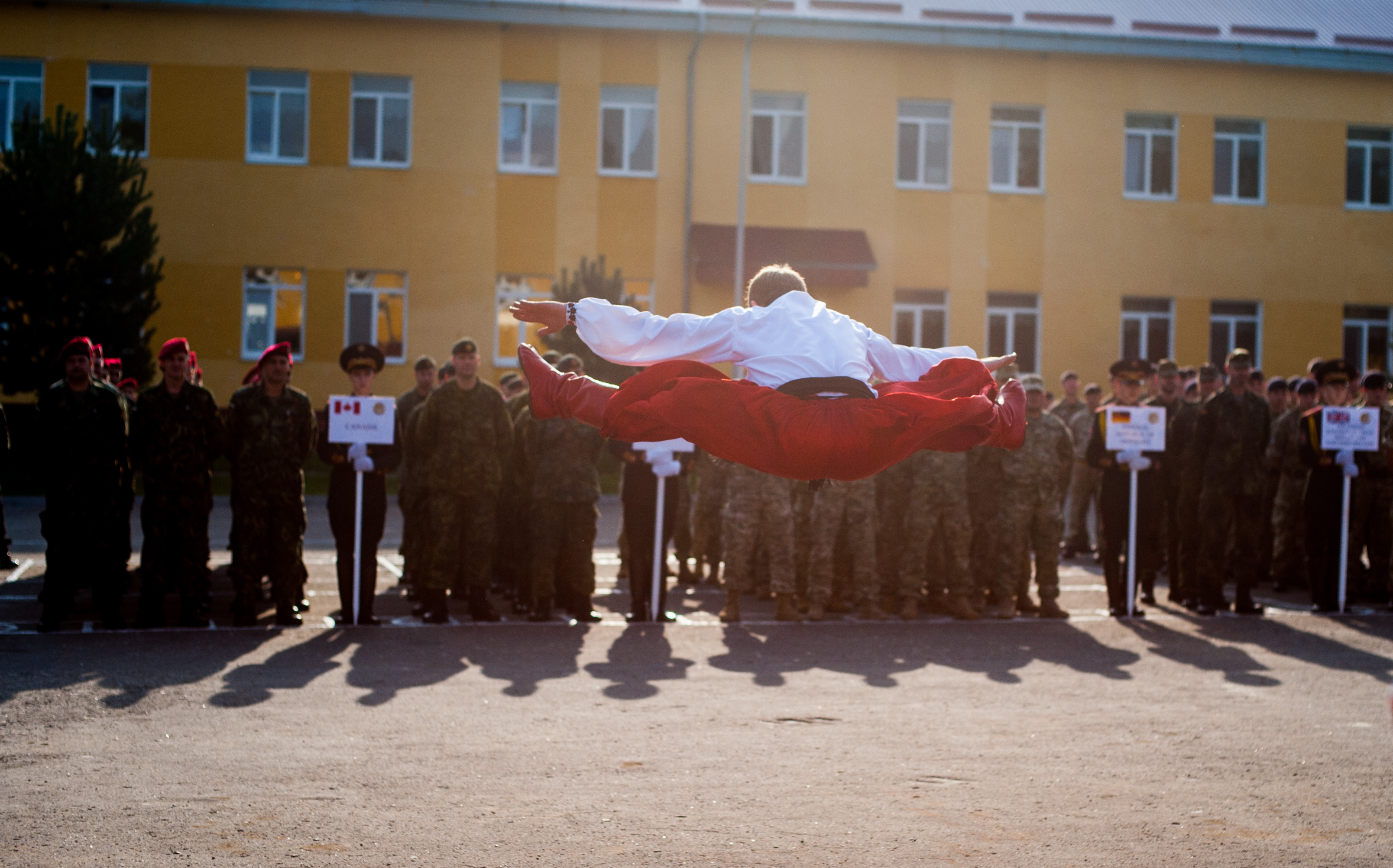 YAVORIV, Ukraine -- A Soldier from the Ukrainian military stands in formation during Exercise Rapid Trident’s opening ceremony here Sept. 15. Rapid Trident is an annual U.S. Army Europe conducted, Ukrainian led multinational exercise designed to enhance interoperability with allied and partner nations while promoting regional stability and security. (U.S. Army photo by Spc. Joshua Leonard)